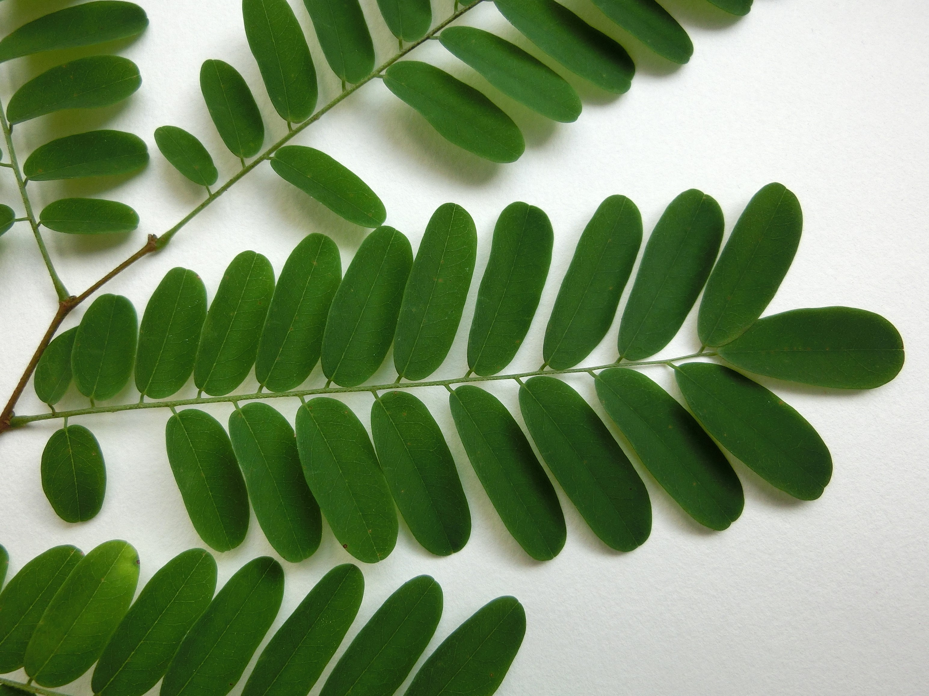 Leaf of Dalbergia nigra (Brazilian rosewood), specimen from greenhouse of Thuenen-Institute of wood research, Hamburg, Germany